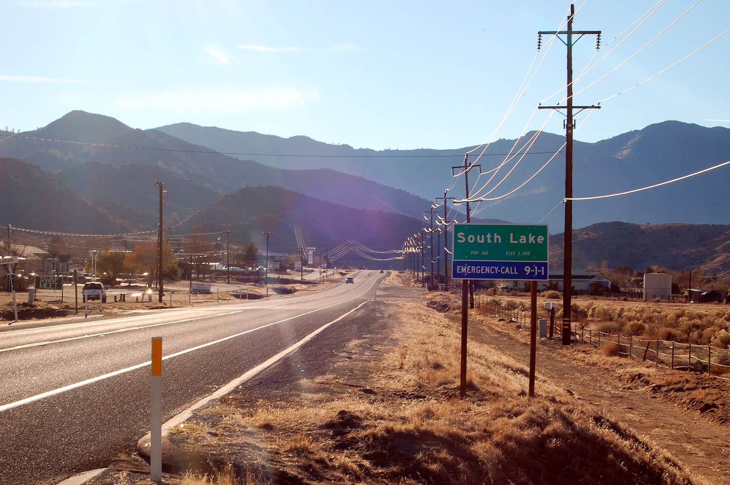 CalTrans G9-2 guide sign describing South Lake, California. This image has quality problems but documents the existence of South Lake. Will re-shoot this at some time in the future. If you get there first, overwrite this image with yours using the "Upload a newer version" option. About this image: Was captured using film or digital camera equipment. May lack artistic merit but documents the existence of the subject(s). May have had elements including colors, composition, gamma, exposure, or size adjusted using camera-, lens-, scanner-settings or by applying image editing software. May have had aberrations, flare, or reflections removed in order that the subject of the image is more clearly visible. Is intended to be representative of the view of the subject that would be perceived by a human eye.